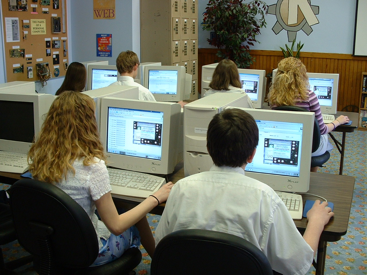 This is a Computer Fundamentals class taking an exam.